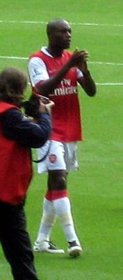 French football (soccer) player William Gallas